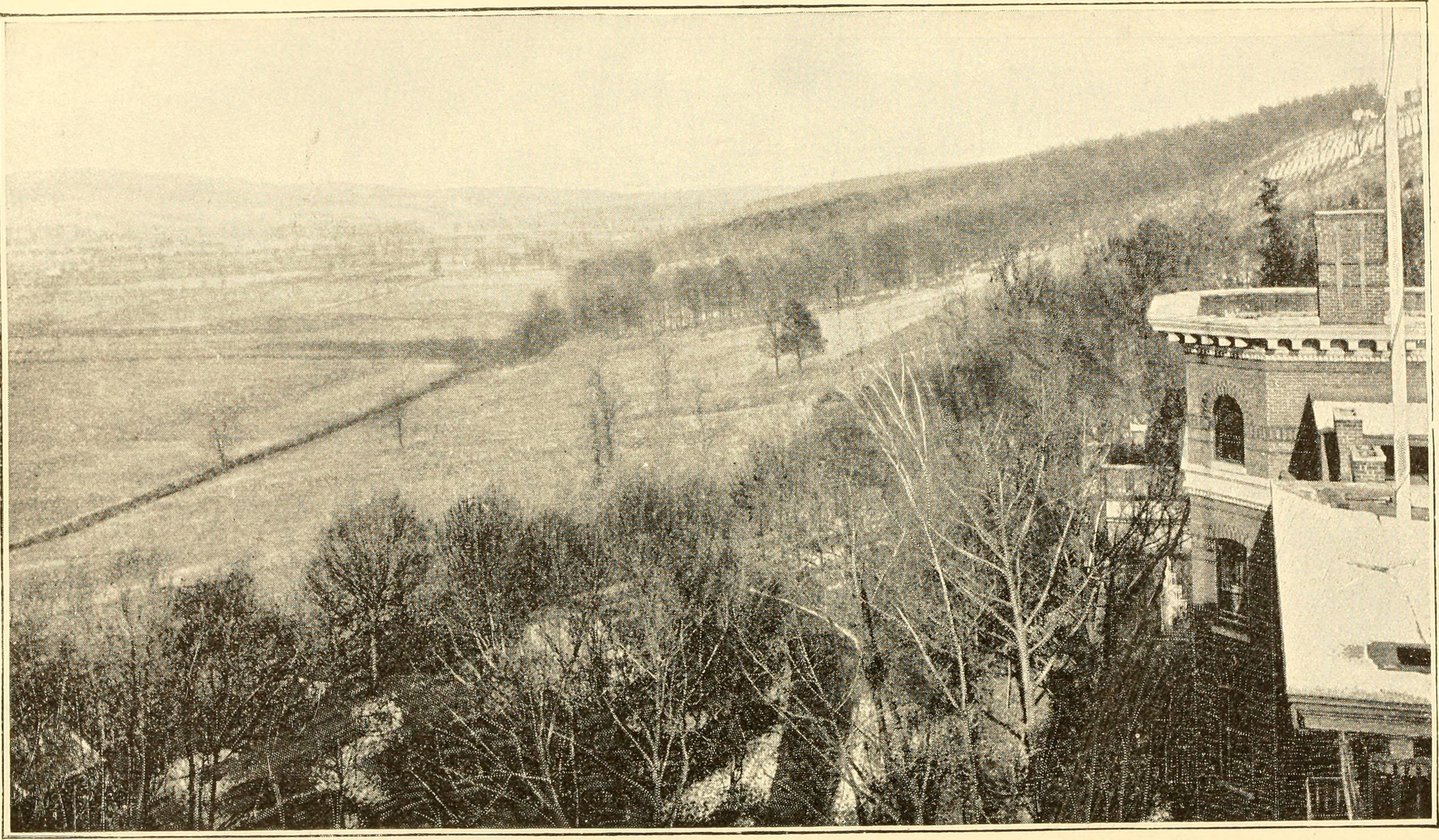 Title: Summer excursion routes and rates .. Year: 1897 (1890s) Authors: Delaware, Lackawanna and Western Railroad Company Subjects: Publisher: New York Text Appearing Before Image: 104 DELAWARE, LACKAWANNA & WESTERN R. R. Text Appearing After Image: DELAWARE, LACKAWANNA & WESTERN R. R. 105 tant horizon. Like a vast living panorama, hundreds of square miles of valley andhill are spread out before the traveler, who is both surprised and delighted with thebeauty of a picture of surpassing loveliness, rarely equalled in this or any foreignland. Nature is here more gently picturesque than rugged or grand. Although thehills rise upwards of a thousand feet, they are dotted almost to their summits withfarms, vineyards and grain fields, which alternate with masses of evergreen andstretches of timber laud. On nearer acquaintance many hidden attractions are discovered by the artist andthe lover of the beautiful—wild, rocky ravines, with precipitous sides and crystal cas-cades, deep gorges set with pile and hemlock, numerous mountain streams and tan-gled undergrowth, where the silence of the forest is broken only by the song of thebird or the whirr of the partridge. Stony Brook Glen, similar in its rocky formationand waterfalls to Watk